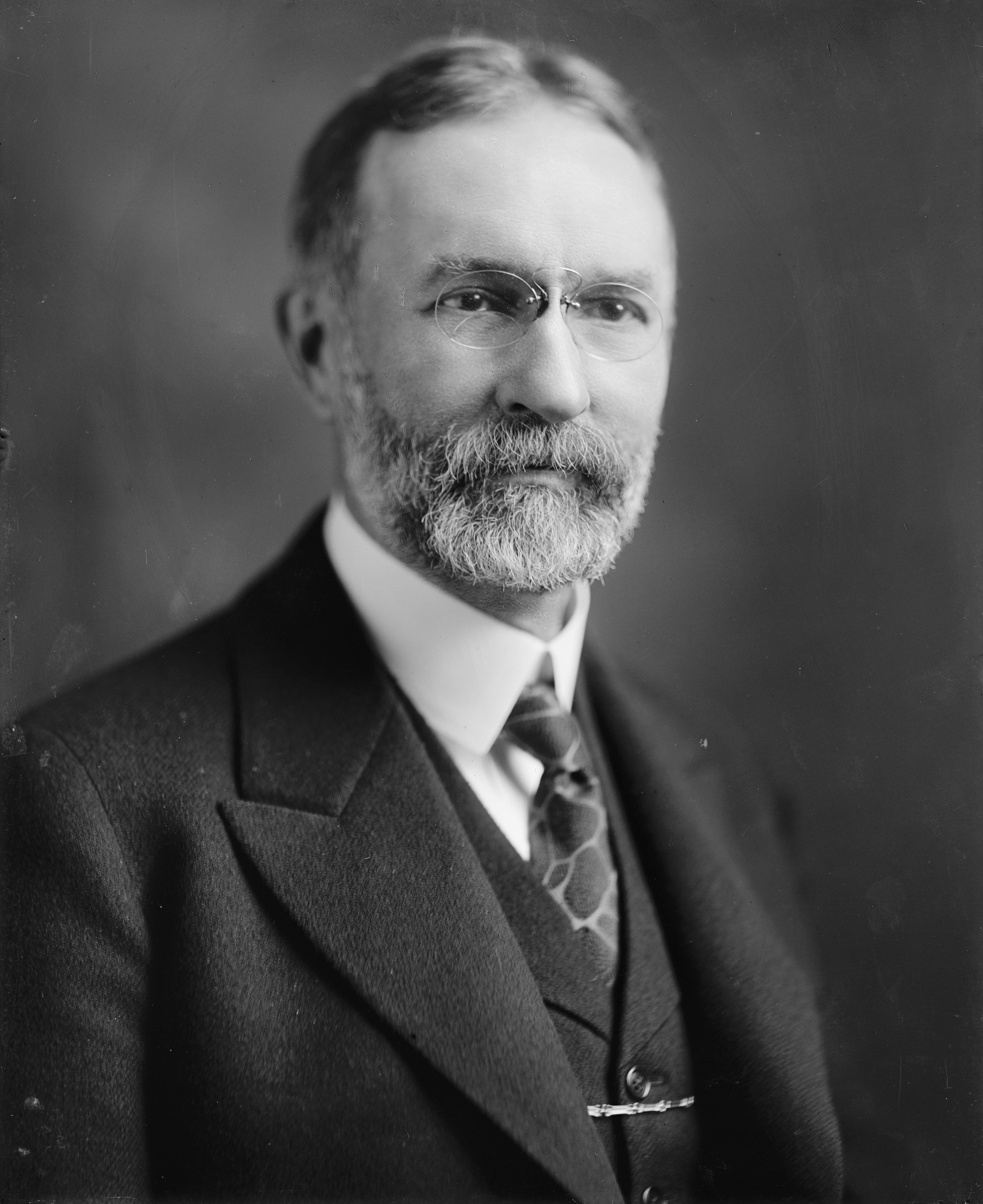 Associate Justice George Sutherland of the United States Supreme Court